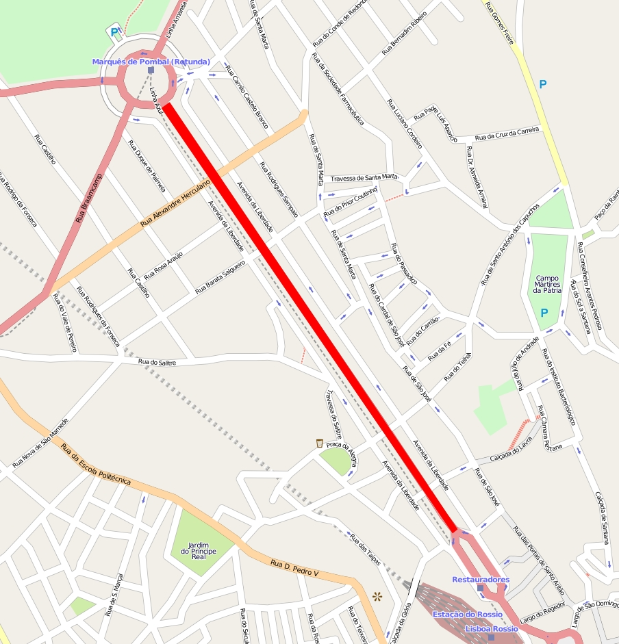 This map may be incomplete, and may contain errors. Don't rely solely on it for navigation.